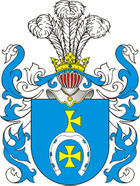 Herb Siennickich, from English Wiki, Herb Antosow, from Polish Wiki